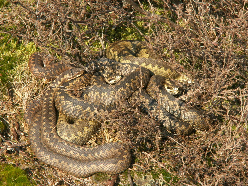 group of sunbathing adders (Vipera Berus) in early spring